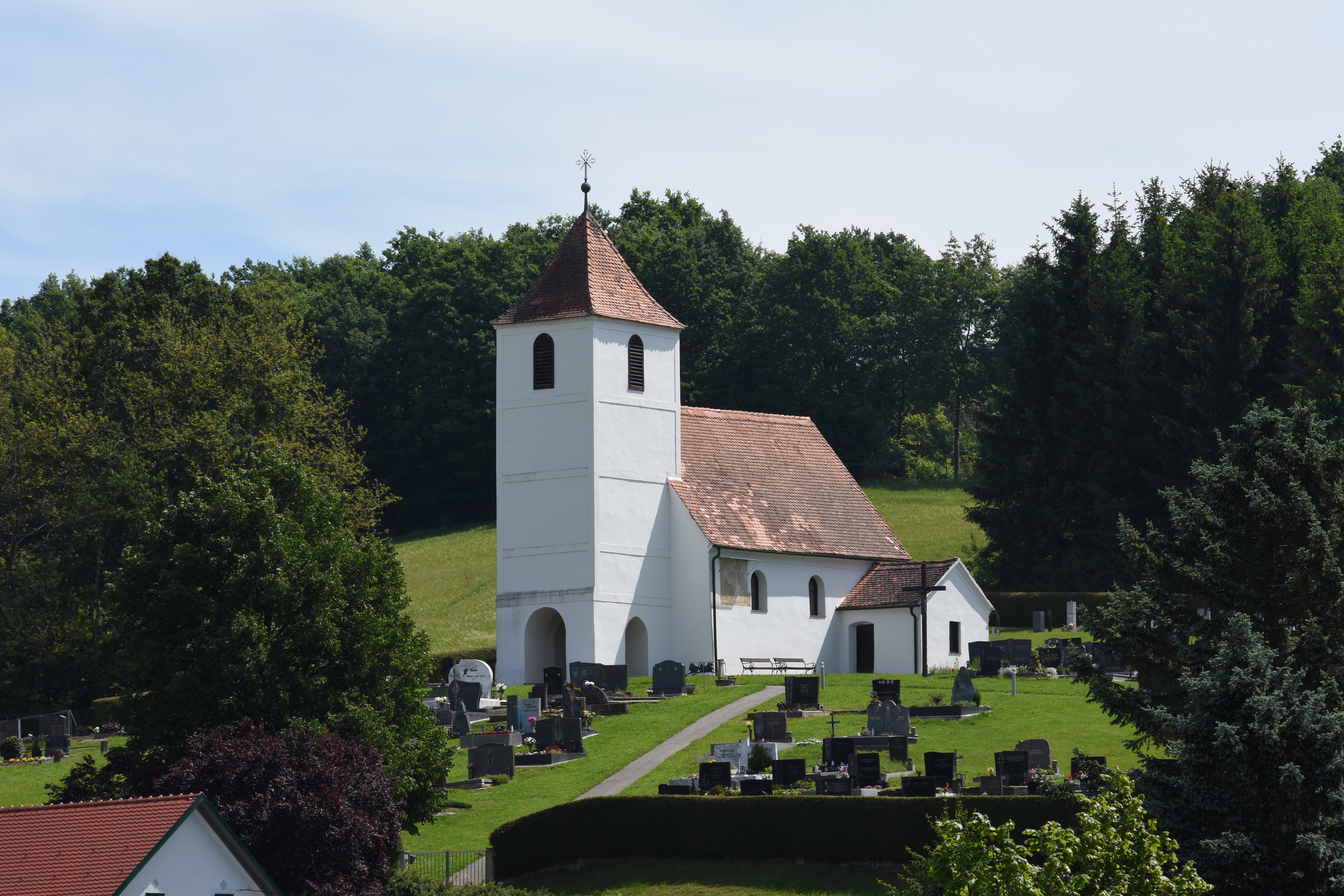 Church hl. Laurentius Zahling